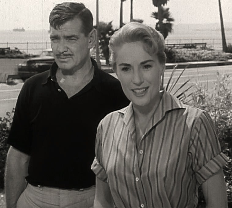 Clark Gable & Mary LaRoche in Run Silent, Run Deep - trailer (cropped screenshot)